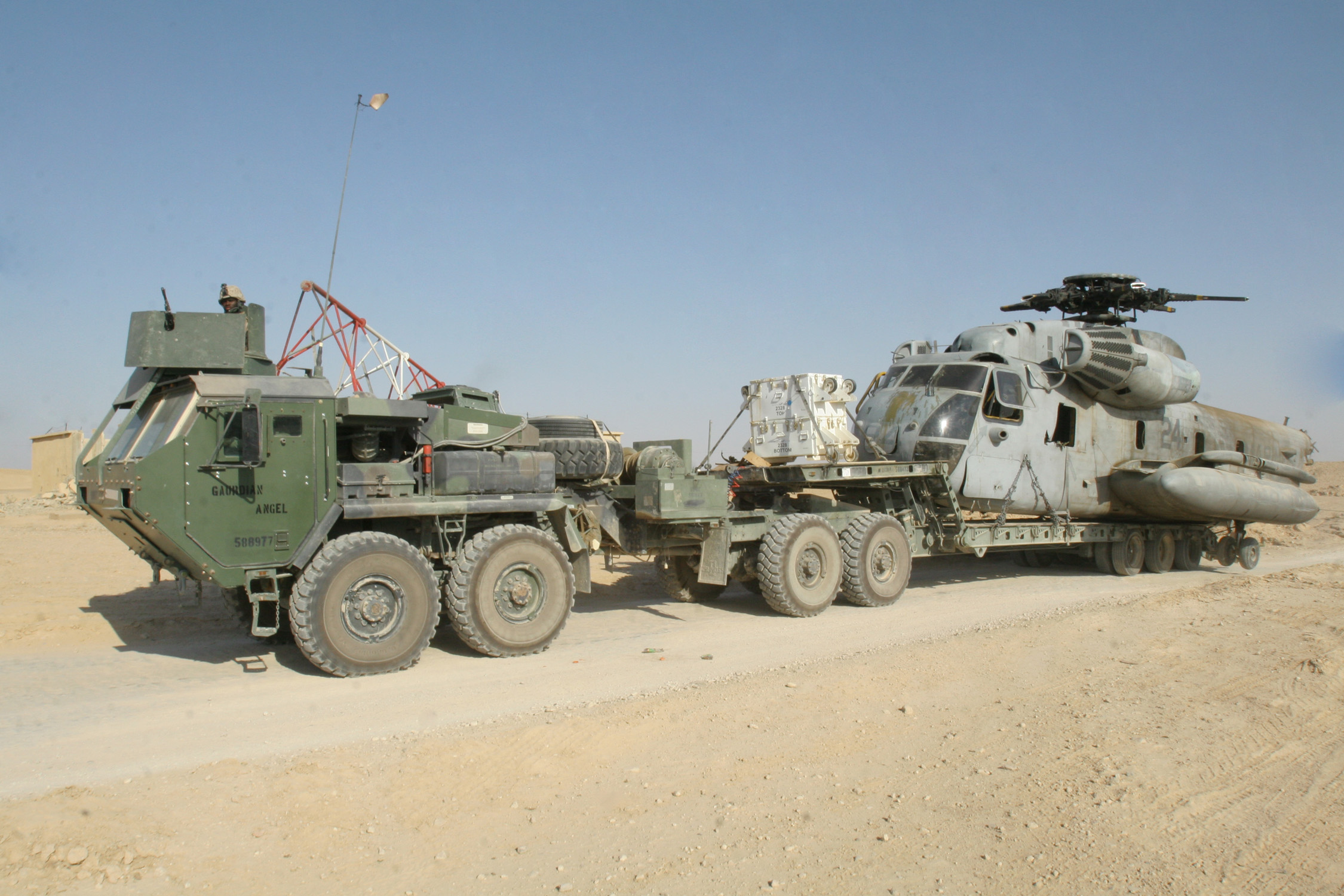 A disabled CH-53D Sea Stallion helicopter is towed by an oversized trailer during the mission to recover the aircraft in the Al Anbar Province Iraq of Sept. 9. The helicopter belonging to Marine Heavy Helicopter Squadron 463, Marine Aircraft Group 16 (Reinforced), 3rd Marine Aircraft Wing (Forward), was successfully returned by a Marine Wing Support Squadrons 273 and 274, Marine Wing Support Group 37 (Reinforced), 3rd MAW, recovery team to Al Asad, Iraq, Sept. 9 after it made a hard landing in Western Iraq Sept. 7.